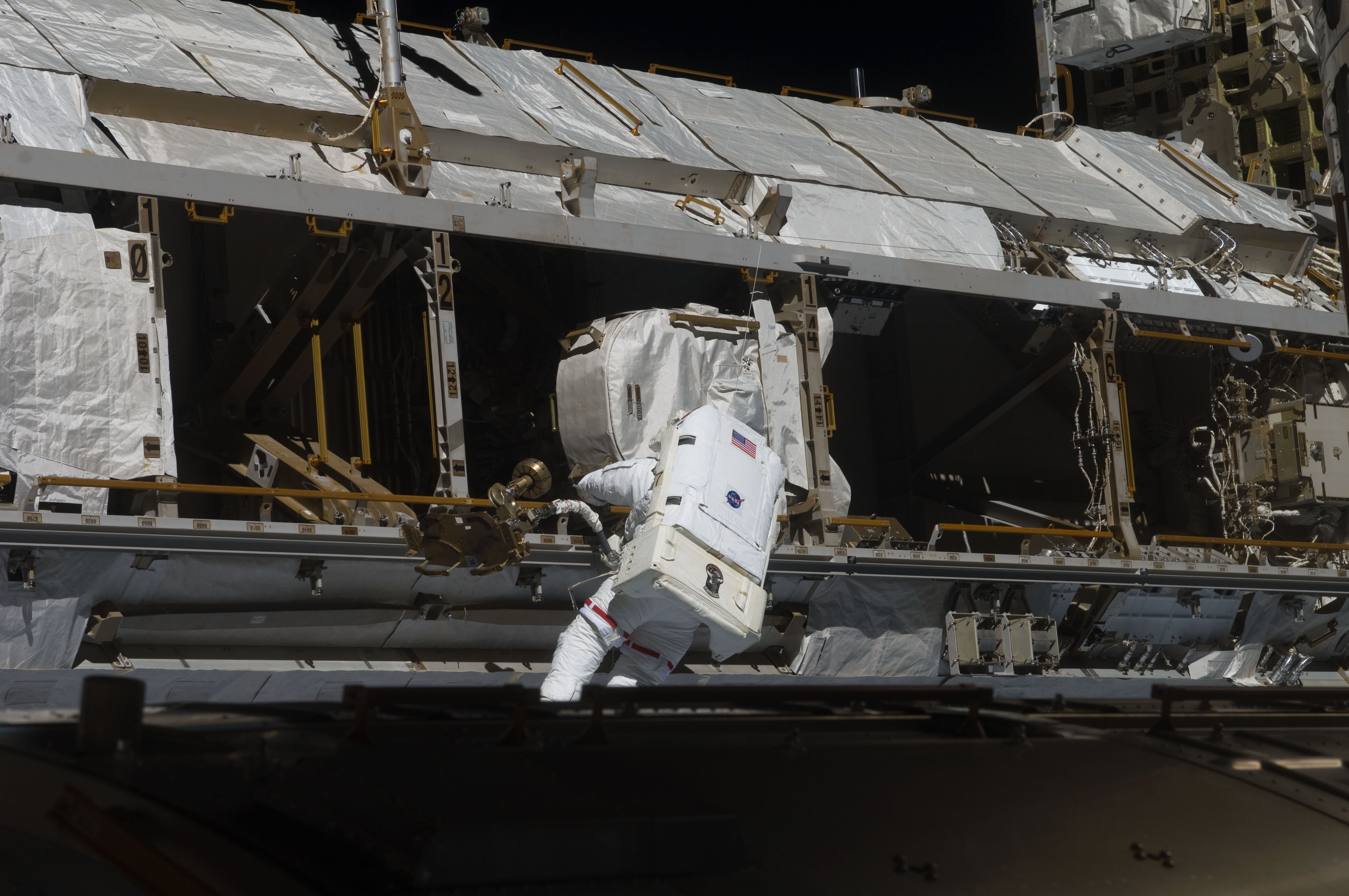 Astronaut Joseph Acaba, STS-119 mission specialist, participates in the mission's second scheduled session of extravehicular activity (EVA) as construction and maintenance continue on the International Space Station. During the six-hour, 30-minute spacewalk Acaba and astronaut Steve Swanson (out of frame), mission specialist, prepared a worksite so the STS-127 spacewalkers can more easily change out the Port 6 truss batteries later this year. On the Japanese Kibo laboratory they installed a second Global Positioning Satellite antenna that will be used for the planned rendezvous of the Japanese HTV cargo ship in September. They photographed areas of radiator panels extended from the Port 1 and Starboard 1 trusses and reconfigured connectors at a patch panel on the Zenith 1 truss that power Control Moment Gyroscopes.